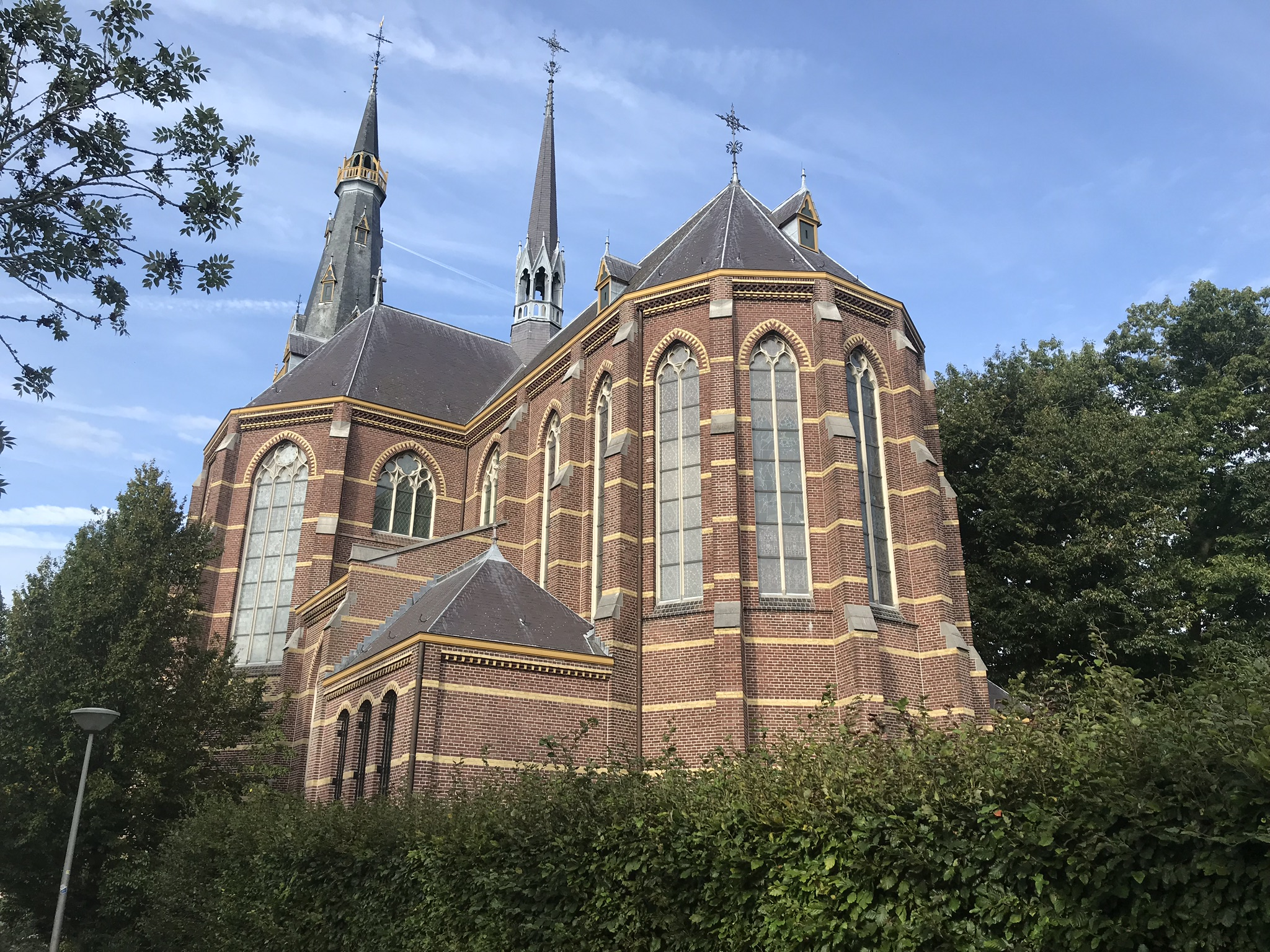 Backside Saint Clemenschurch, Waalwijk, the Netherlands